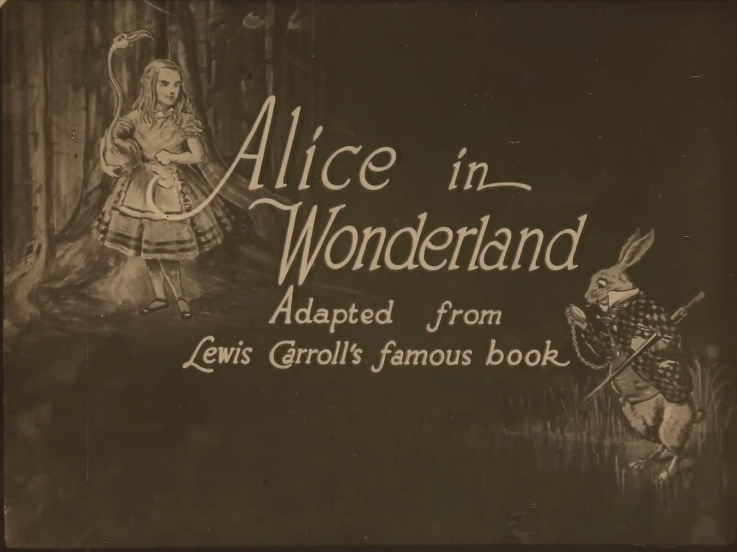 Title frame from the 1915 public domain film "Alice in Wonderland"